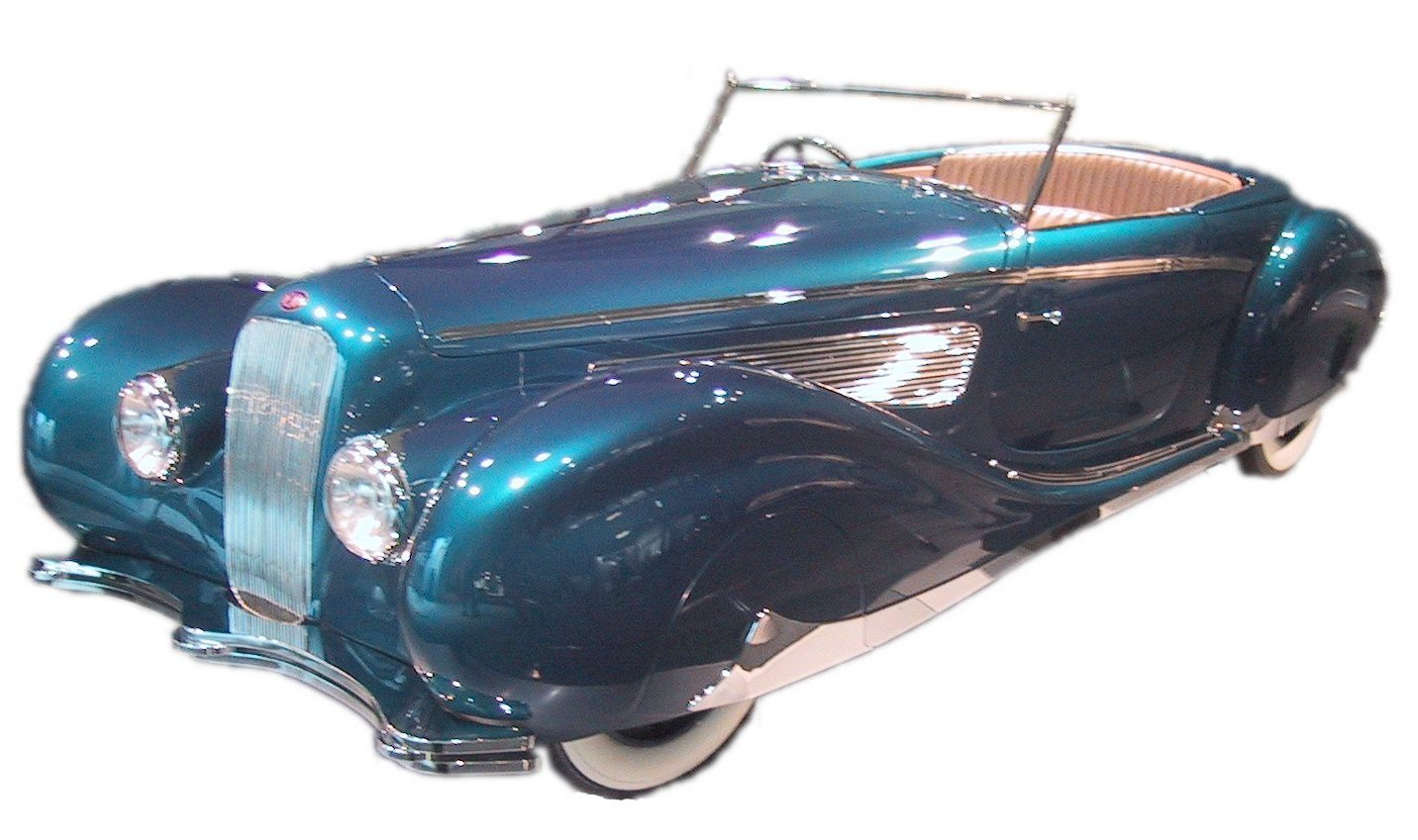 Delage Type D8-120, a french luxury car from 1939 at the Toyota Automobil Museum in Aichi